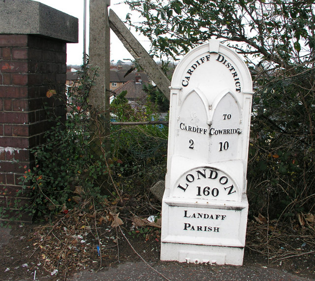 Mile Marker on Cowbridge Road West I have found 7 of these old cast iron mile markers between Bridgend and the centre of Cardiff. This one is near Ely Roundabout at the railway bridge. All have been uploaded. Does anyone know their history?